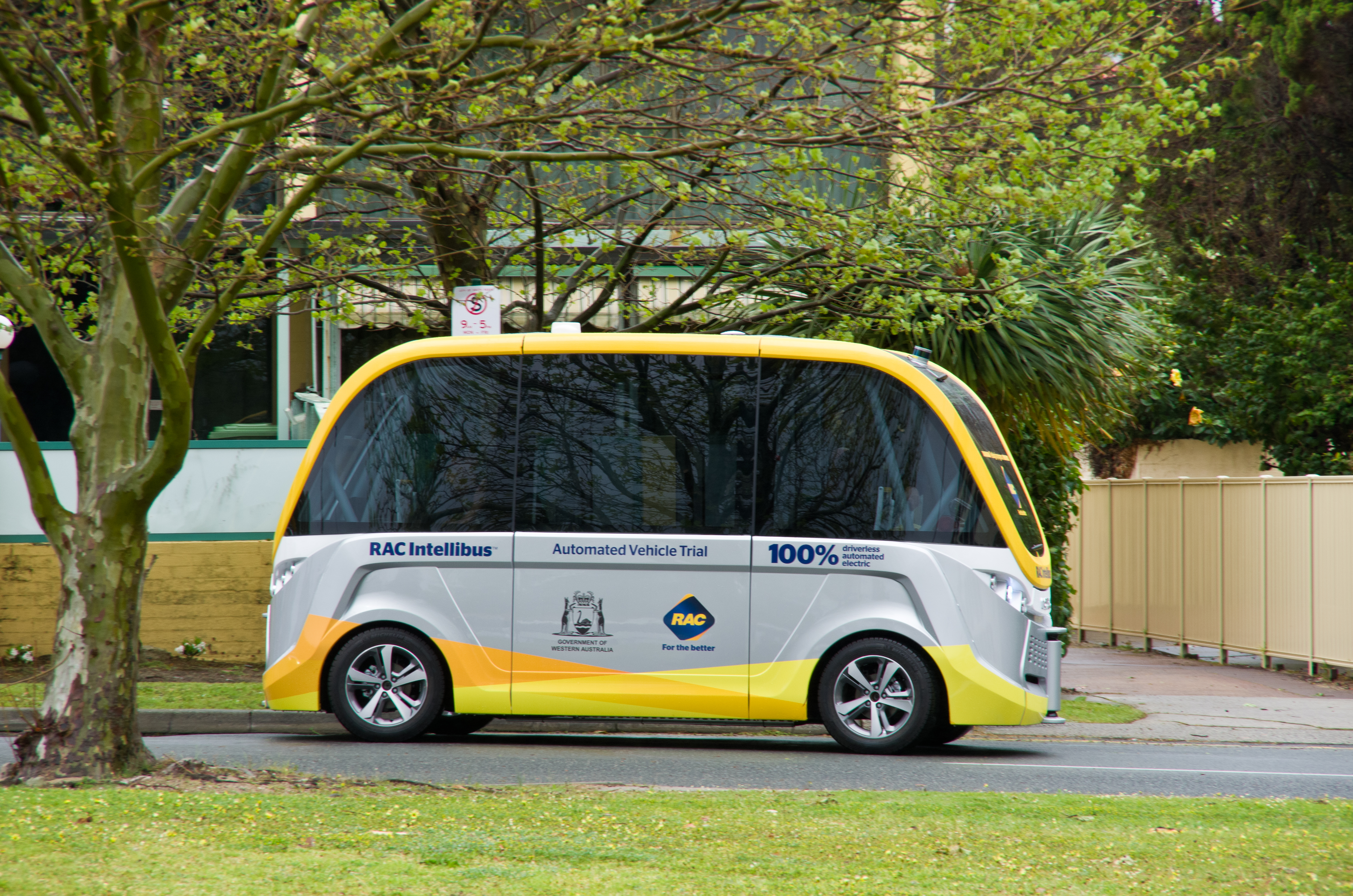 Navya Autonomous bus trail in South Perth, Western Australia